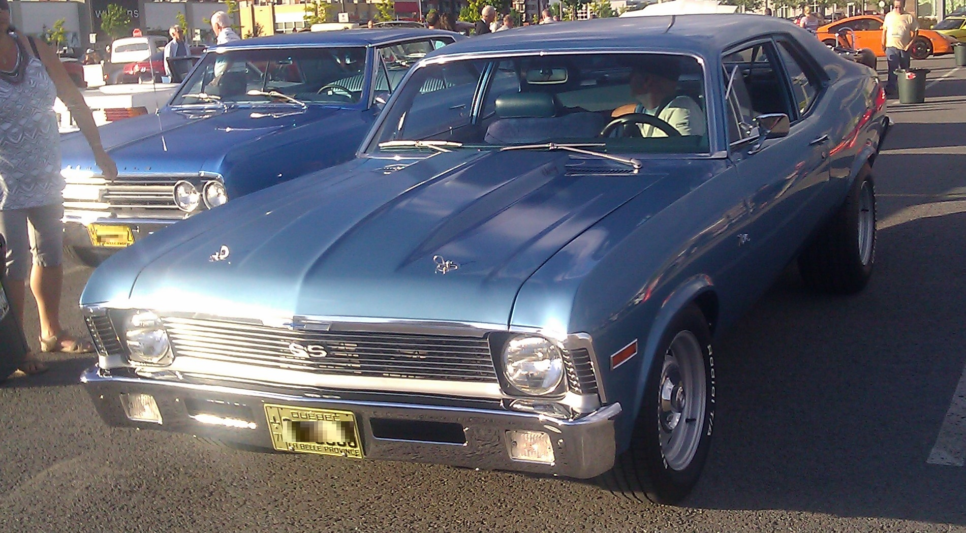 1971 Chevrolet Nova SS photographed in Laval, Quebec, Canada at Les chauds vendredis.